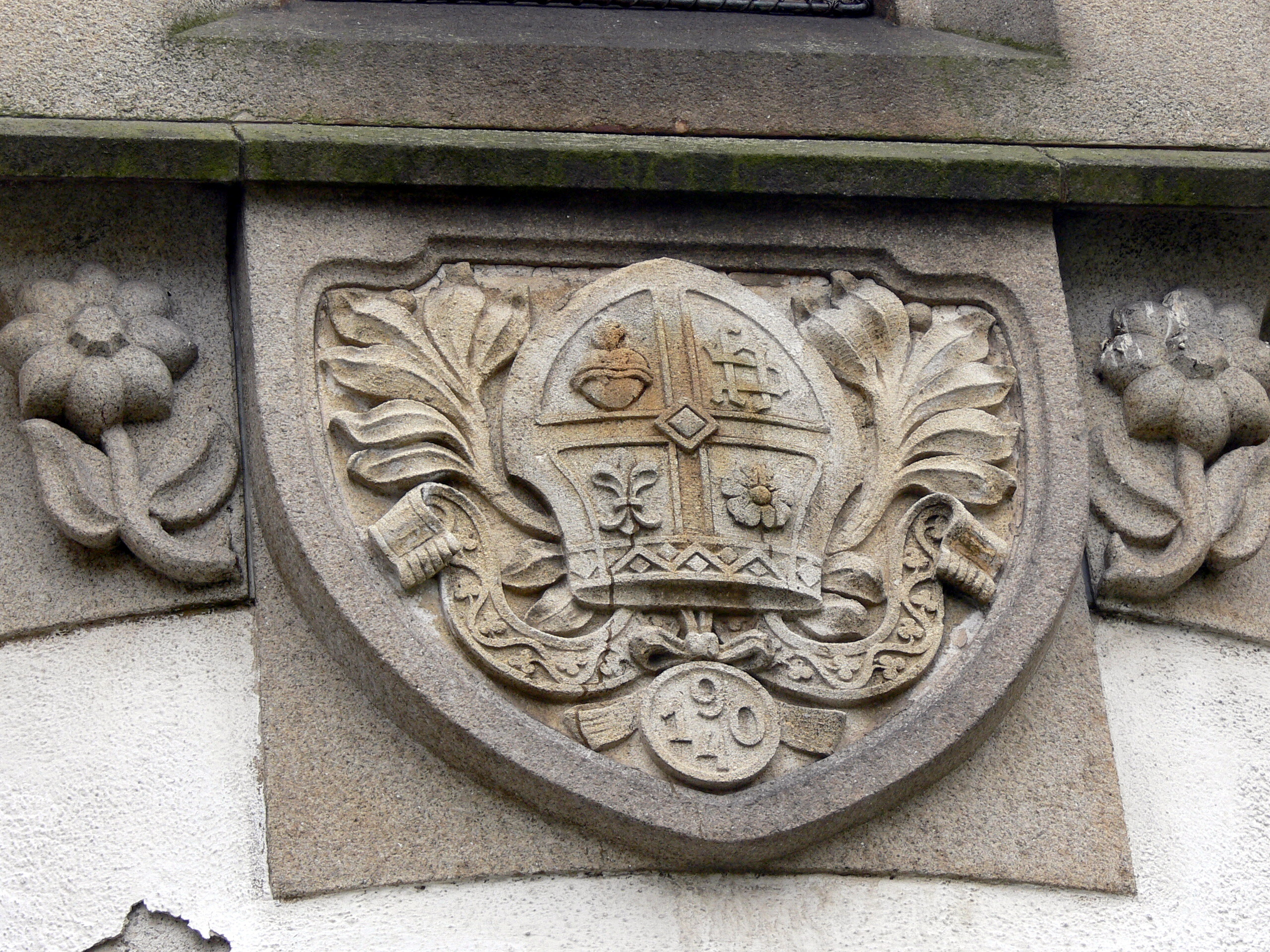 Monastery of Vyšší Brod. Coats of arms ( 1940 ) of the monastery, showing from up left to low right the burning heart of Mary ( Patron saint ), the interwined letters H F ( for Hohenfurth ), the french lily of the Cistercians and the rose of house of Rosenberg ( founder family ) at the entrance of the museum